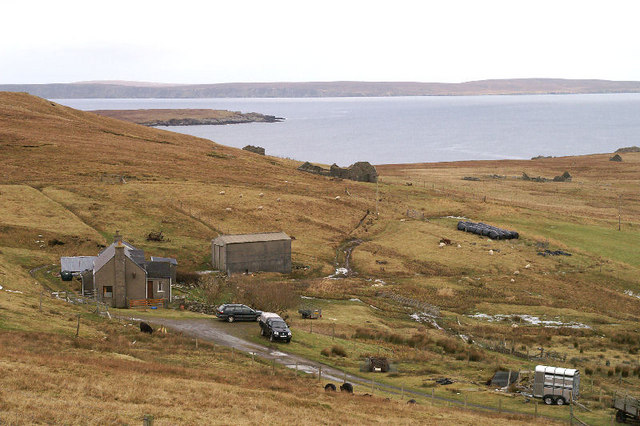 Holligarth, Gossabrough The Ness of Queyon and Fetlar are in the background.